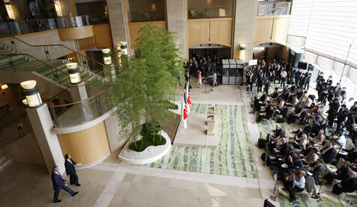 An image from the 2008 G8 Summit showing George W. Bush with Prime Minister Yasuo Fukuda of Japan at a Press Conference. Image uploaded for use in a Wikinews article